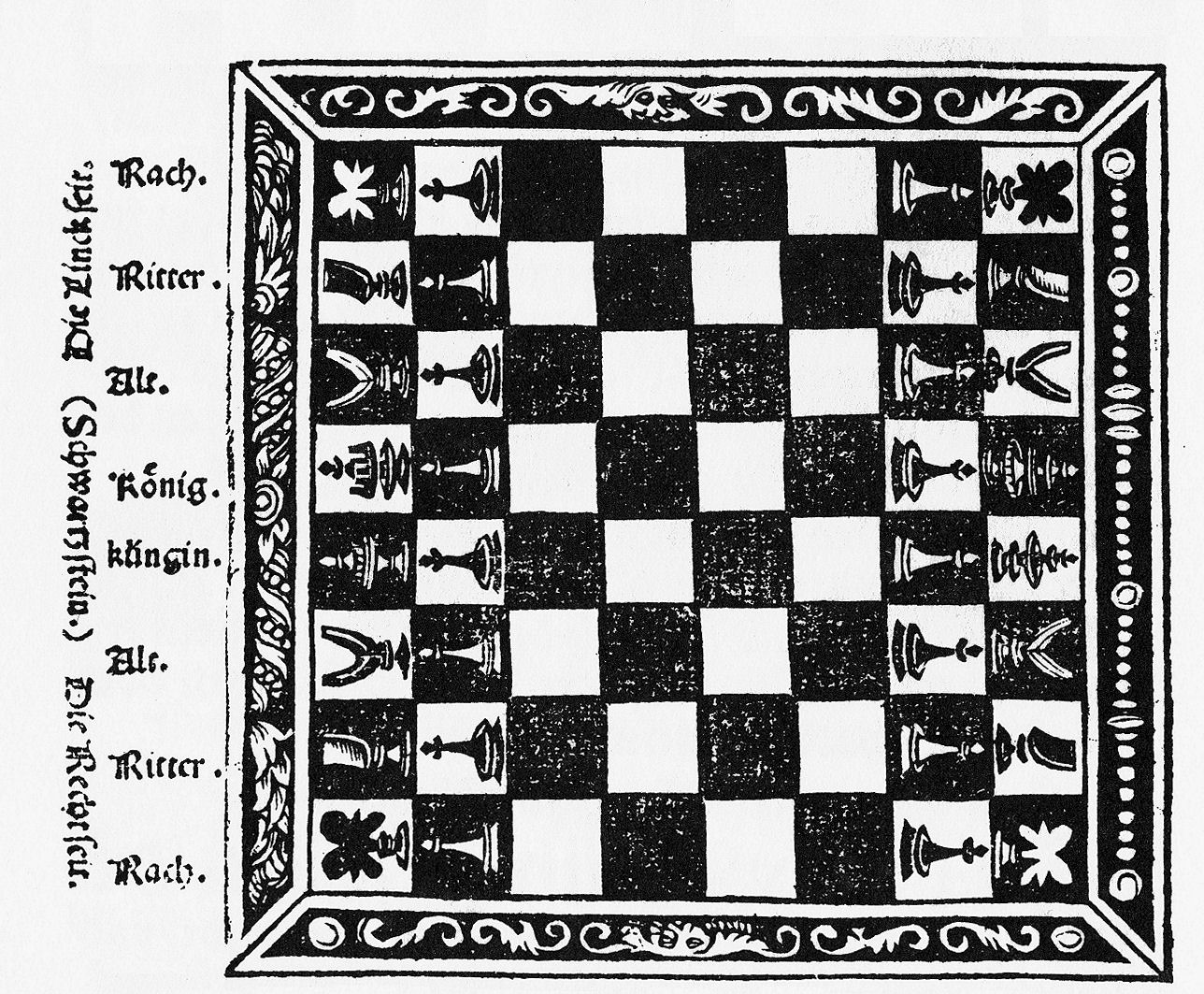 This is a scan of the historical document